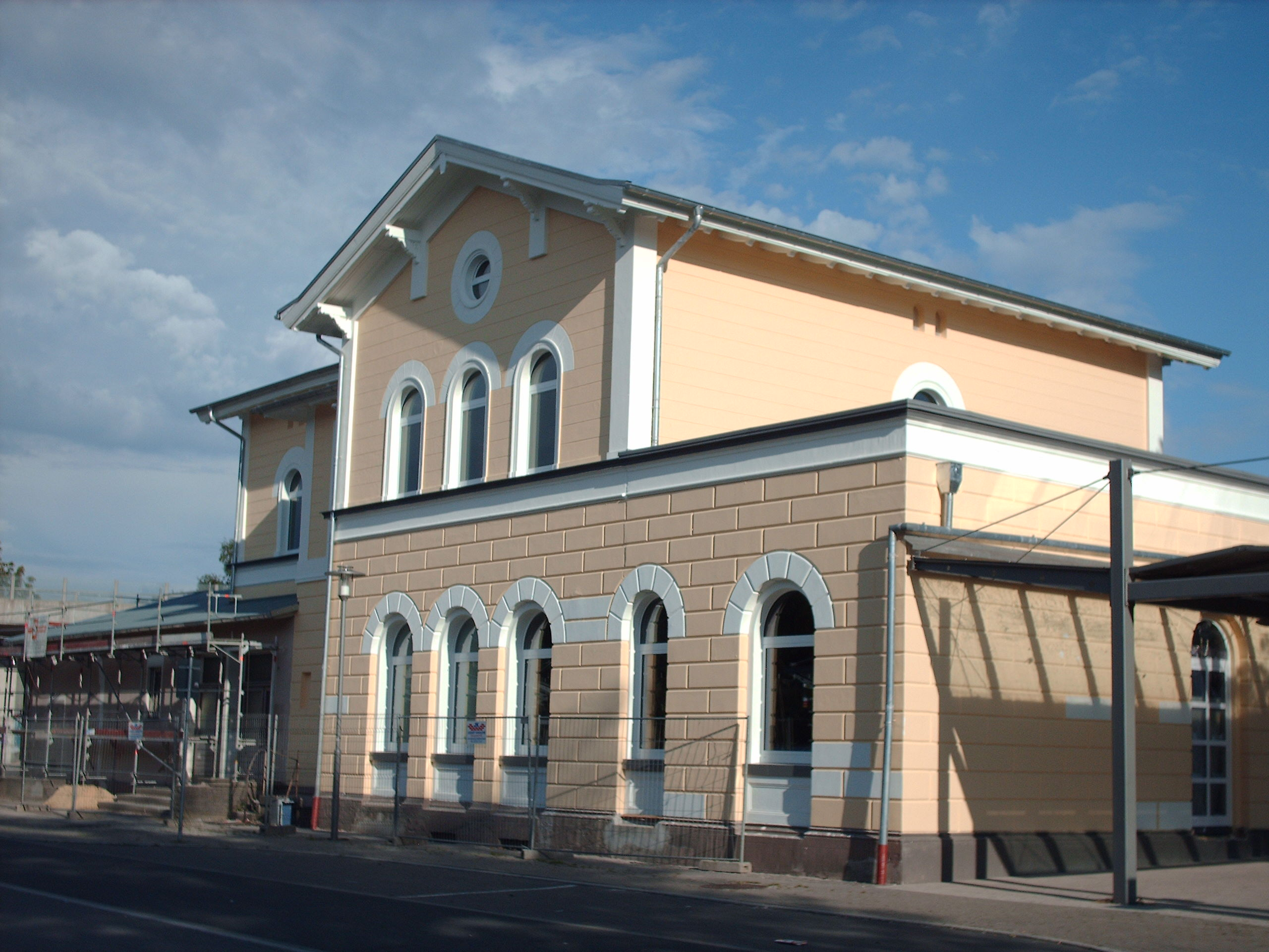 Wickede (Ruhr) station, Wickede (Ruhr), Germany check usage